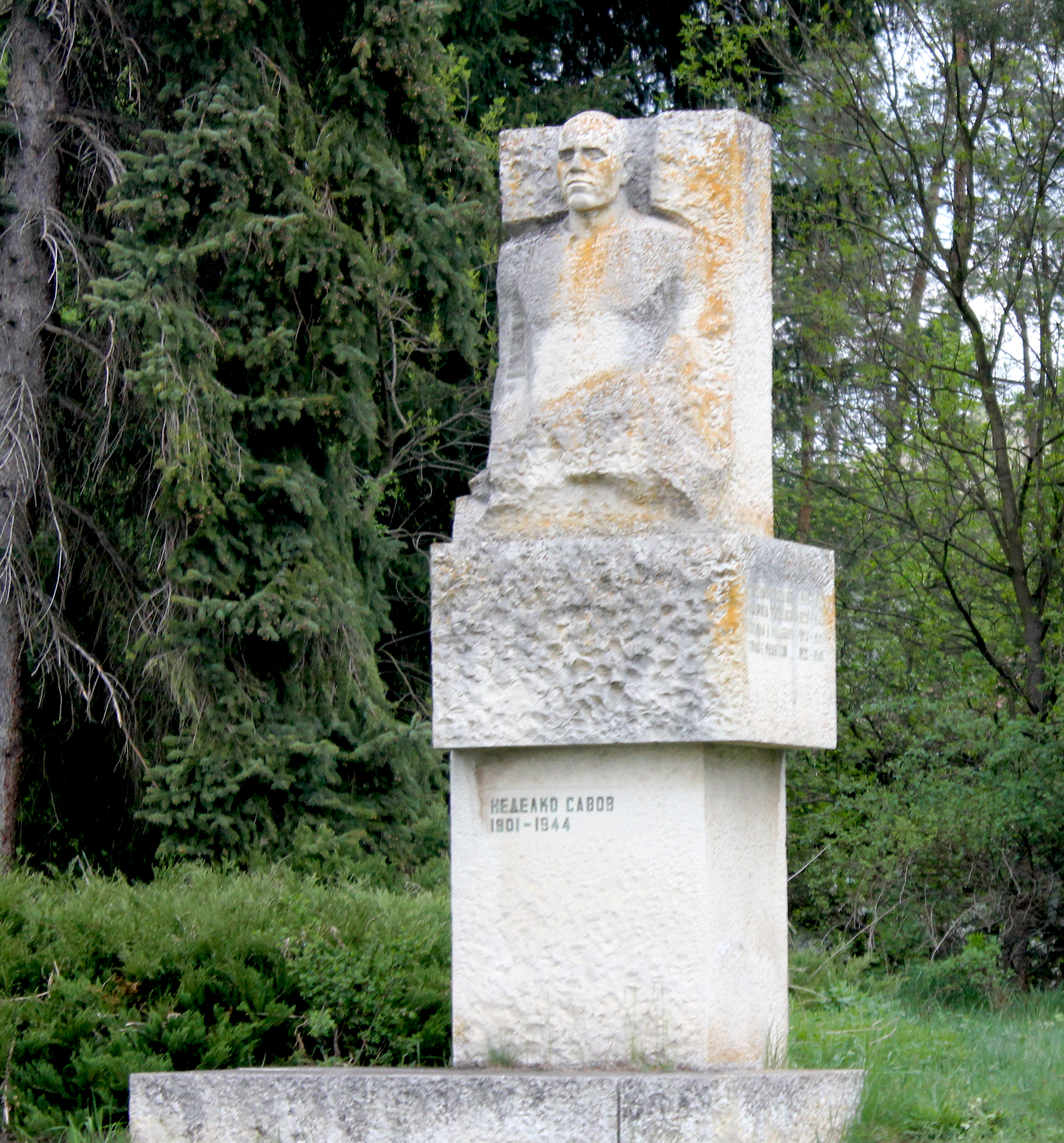 Nedelko Savov Memorial, whose name bears Nedelkovo village in Bulgaria